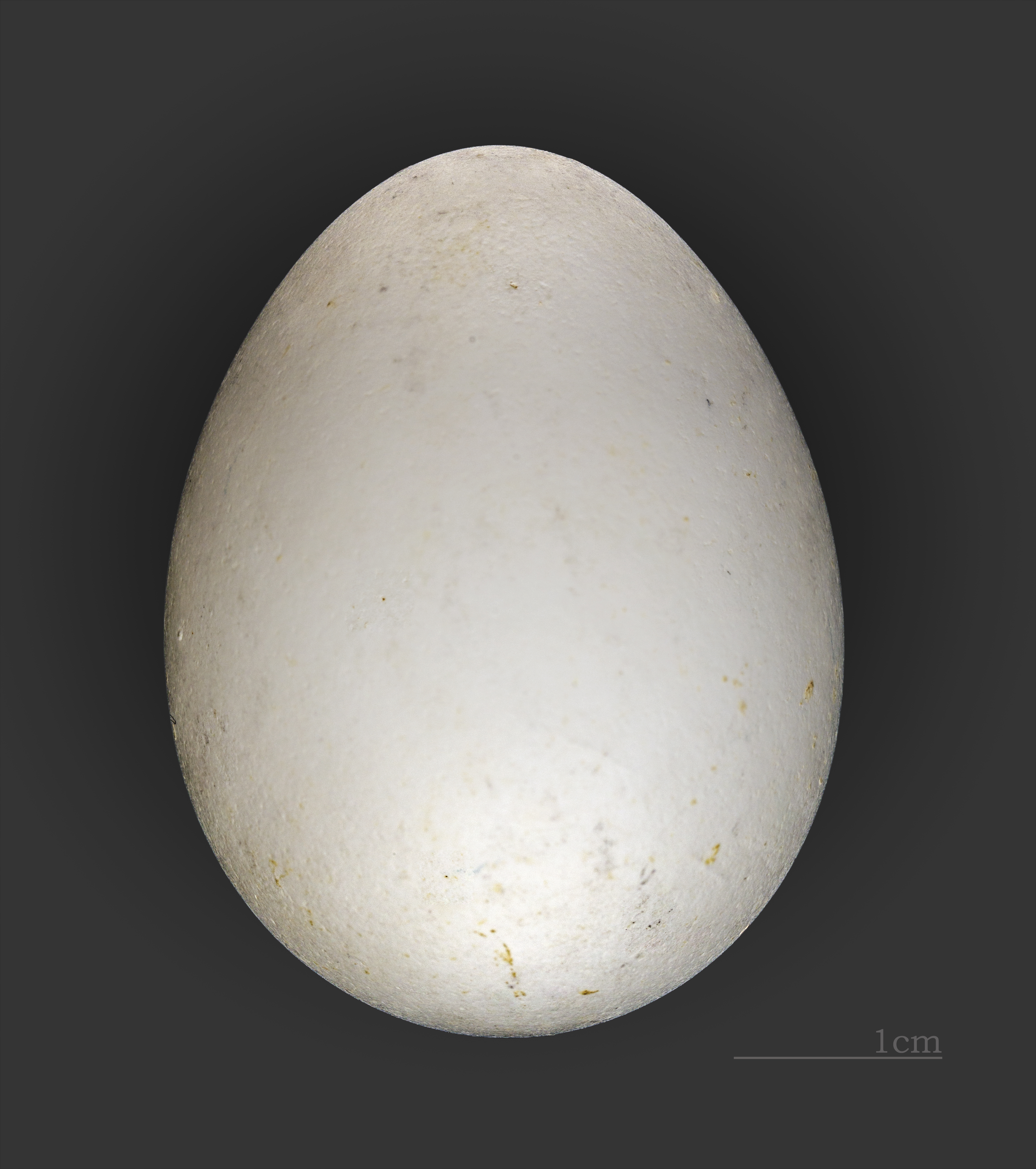 Egg of Boyd's shearwater. Collection of René de Naurois /Jacques Perrin de Brichambaut.